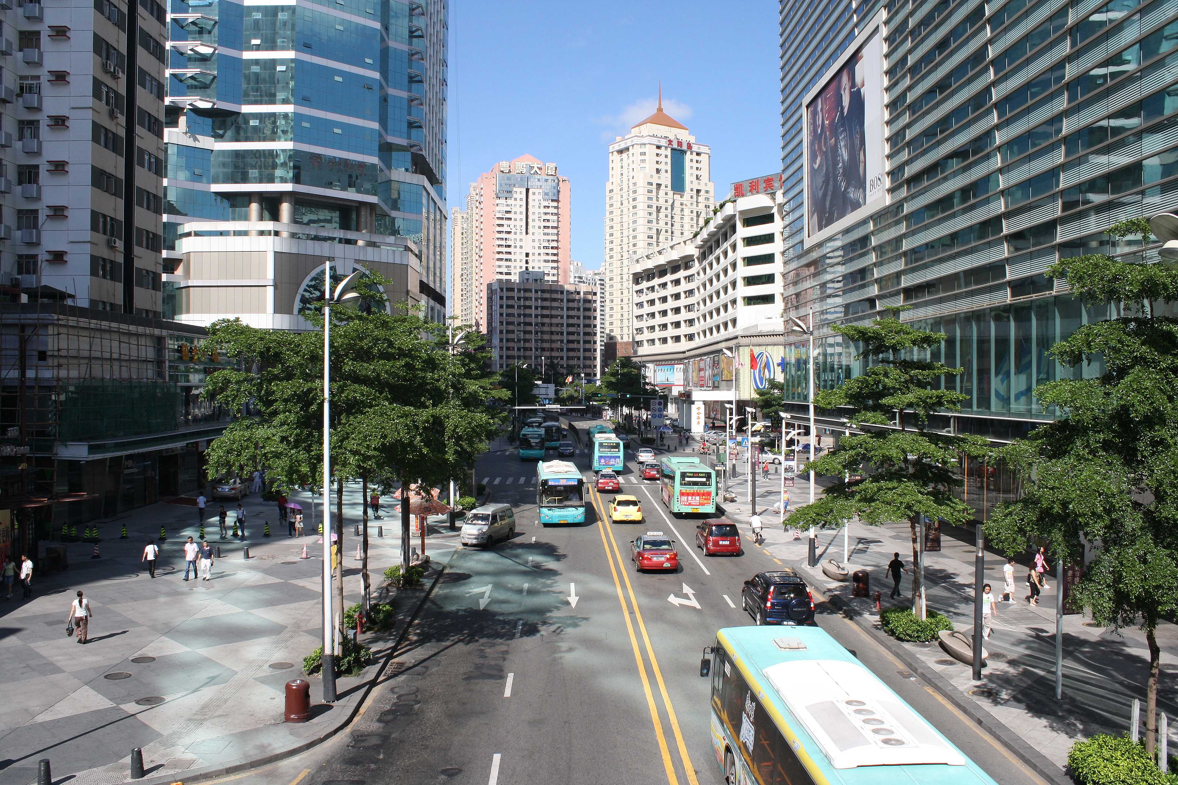 Luowu in Shenzhen.